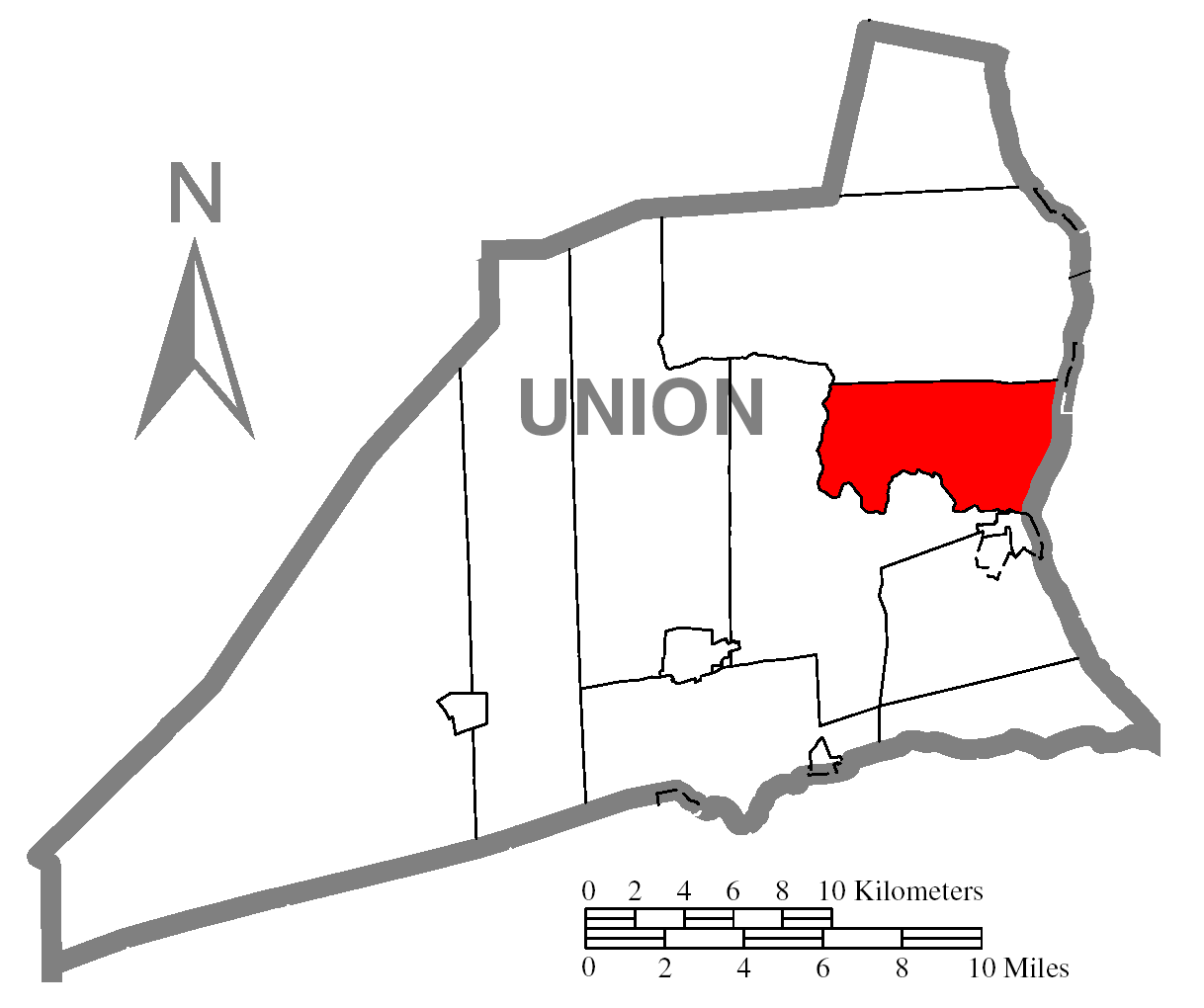 A map of Union County showing KellyTownship, Pennsylvania (alternate) highlighted on the map.